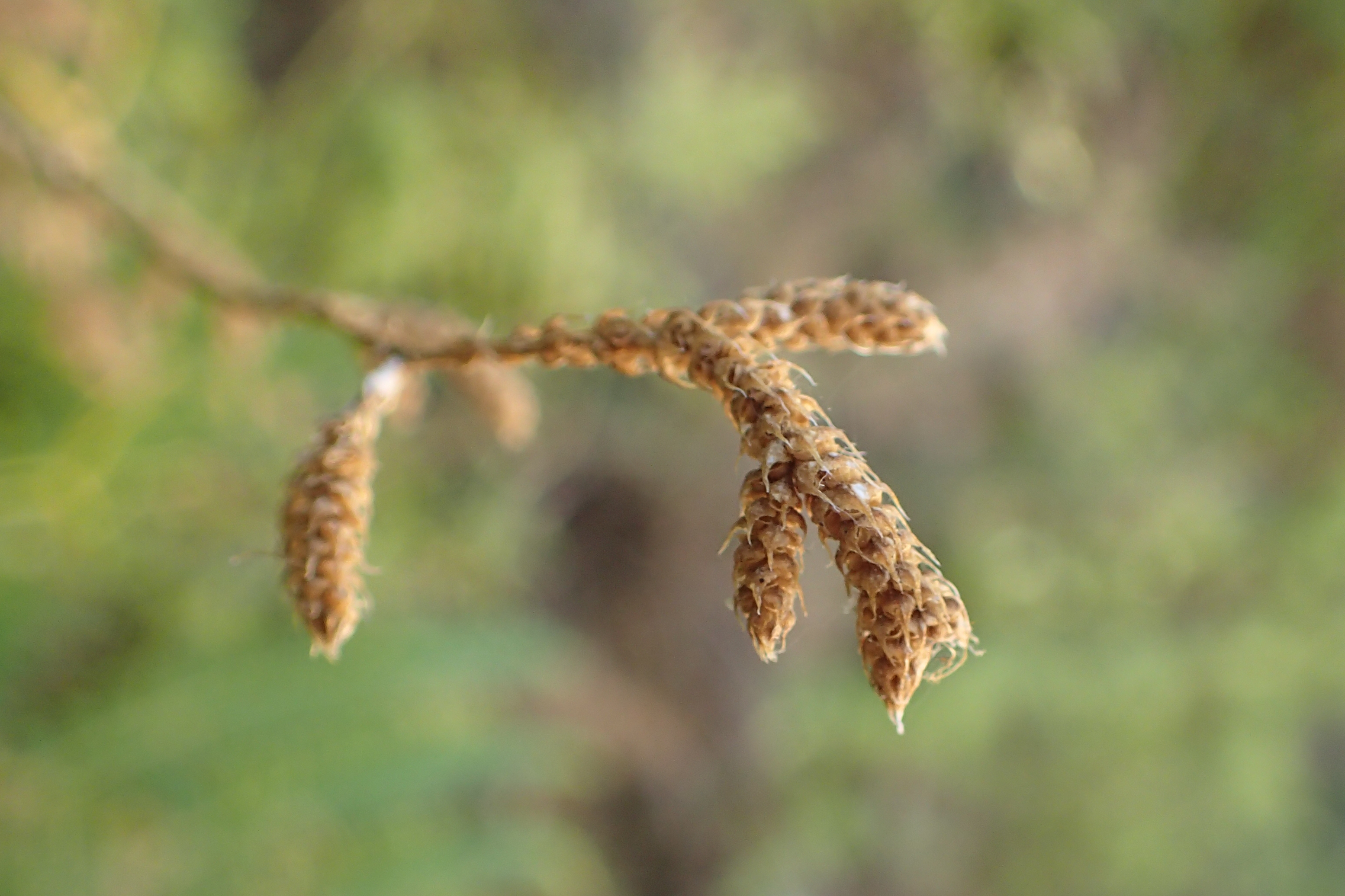 Lycopodium volubile in Totaranui, Tasman (New Zealand)